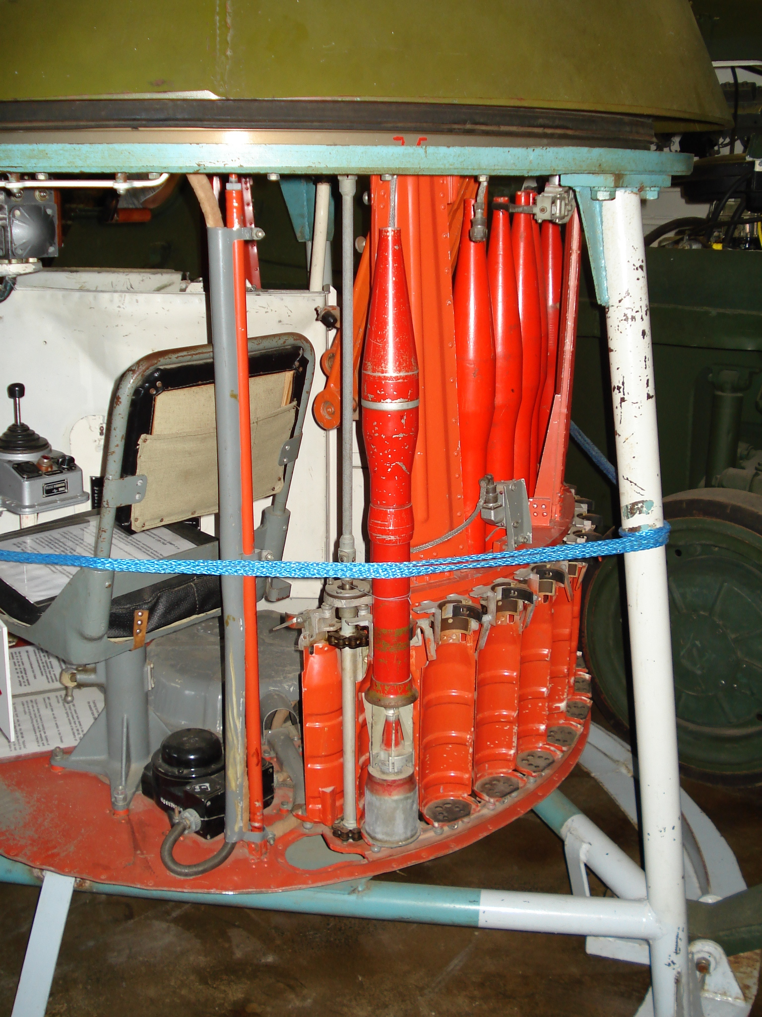 Training turret for Soviet BMP-1 IFV, displayed at Parola Tank Museum. Photo taken on July 14, 2006. Source: Photo by me, User:Balcer.